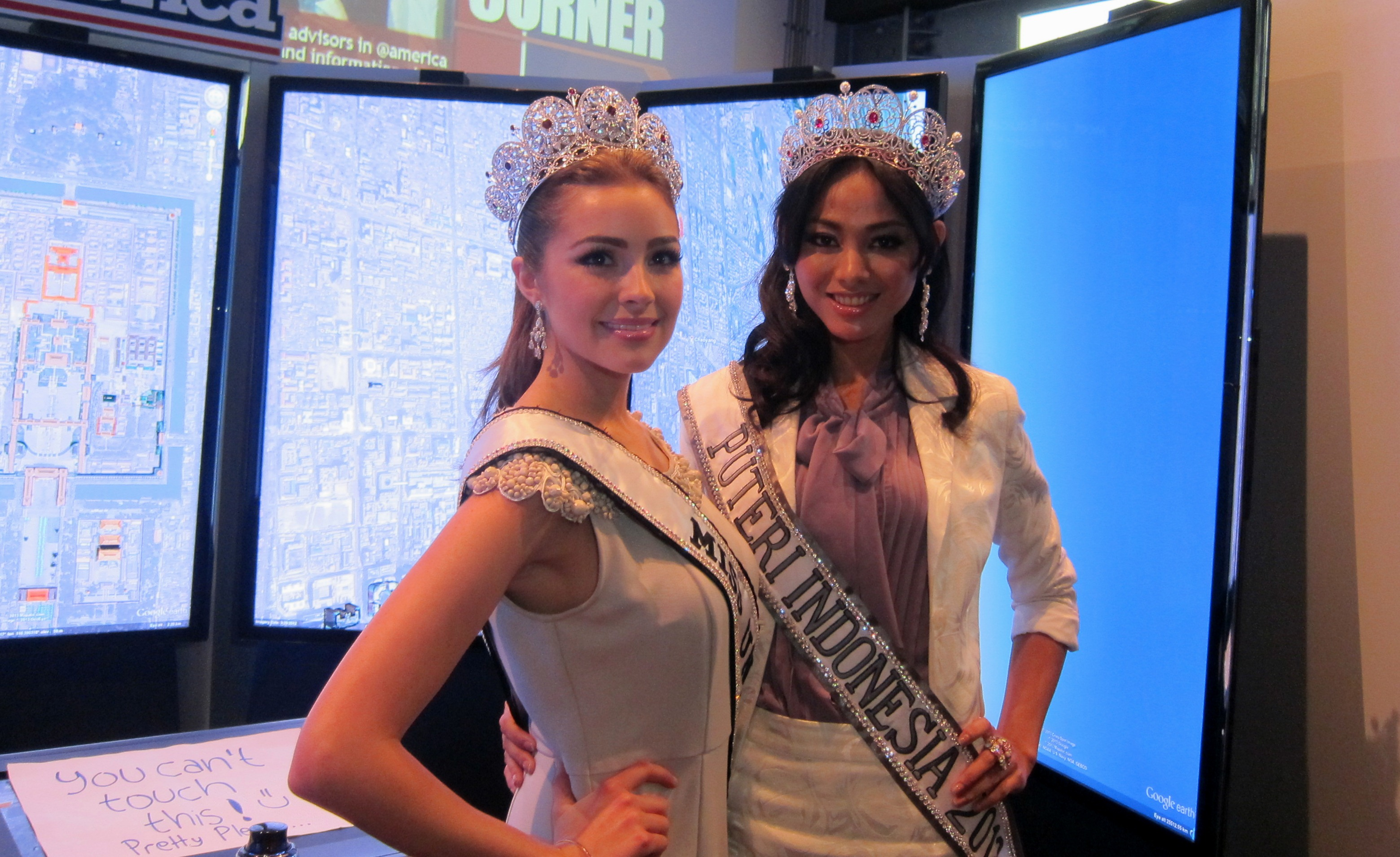 On February 2, the U.S. Embassy Deputy Chief of Mission (DCM) Kristen Bauer welcomed former Miss USA and current Miss Universe 2012 Olivia Culpo to the @america cultural center to help raise awareness about the spread of HIV/AIDS. Miss Universe is visiting Indonesia in support of the Putri Indonesia Beauty Pageant. During the event at @america, DCM Bauer highlighted the U.S. government’s commitment to promote AIDS awareness, particularly among youth. [U.S. State Dept.]